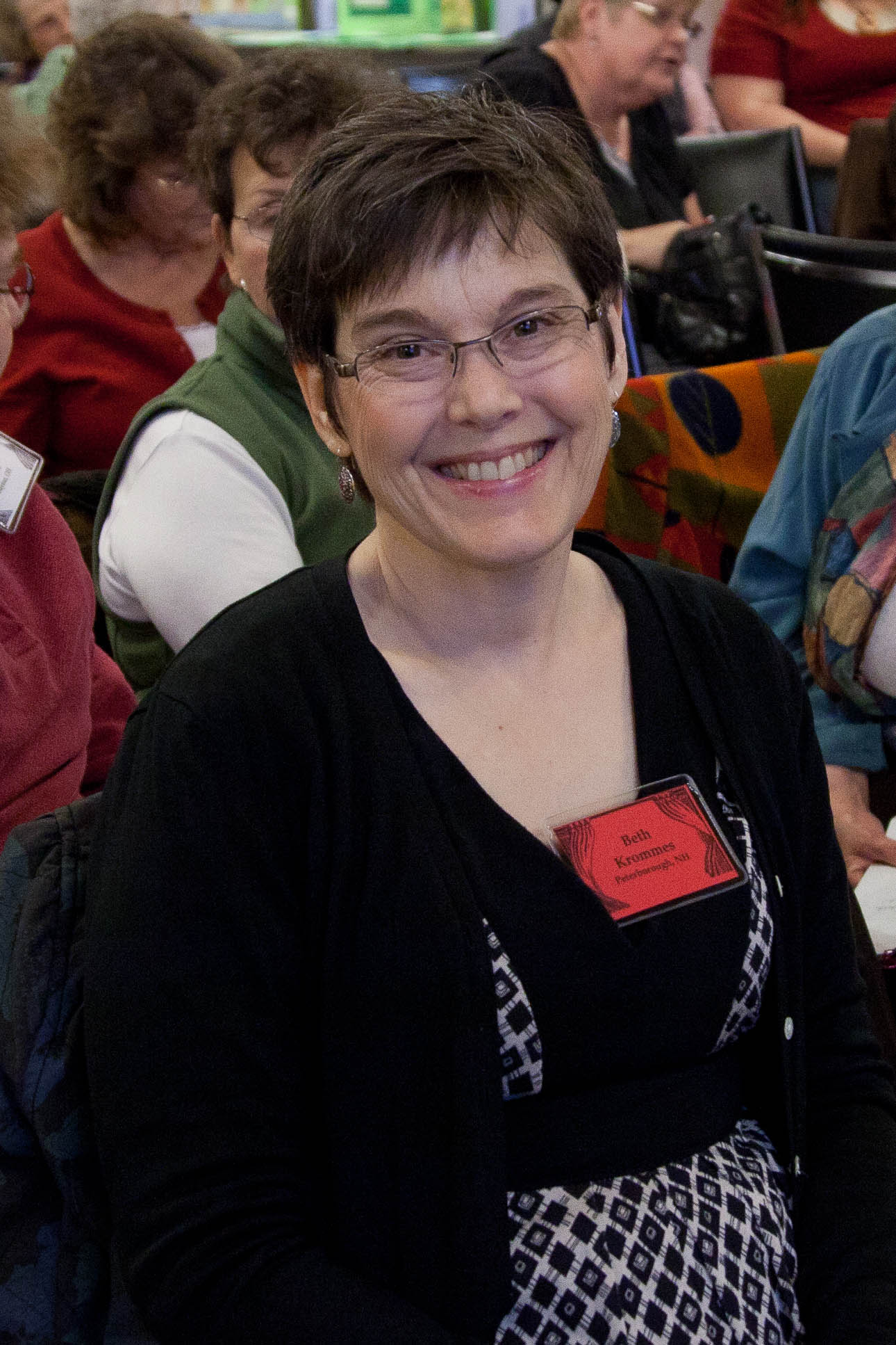 Beth Krommes at the 2010 Fall Conference at the Mazza Museum at The University of Findlay